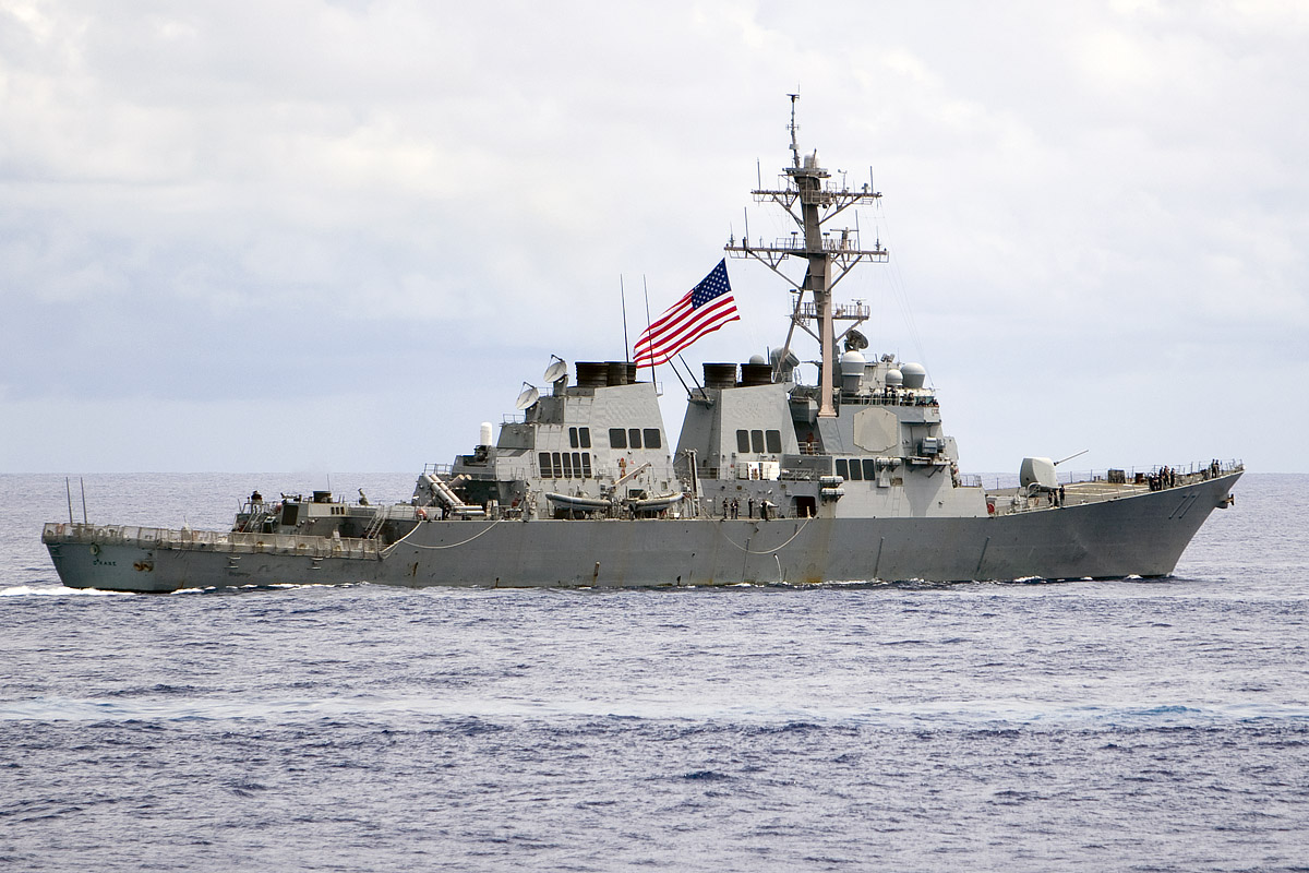 USS O'Kane flies her holiday ensign with pride.